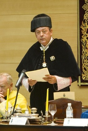 Diego Sales Márquez, previous rector of UCA